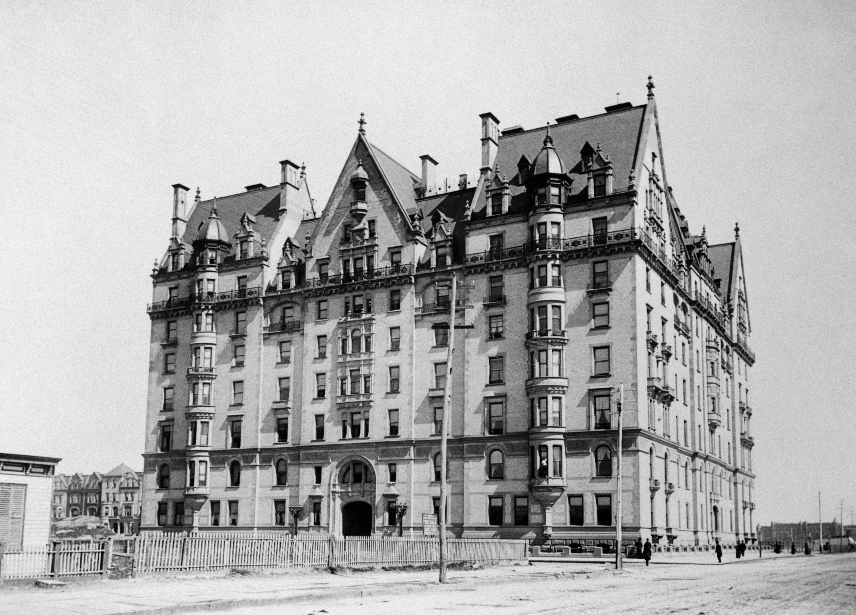 The Dakota, one of the earliest apartment buildings on Central Park West in New York City